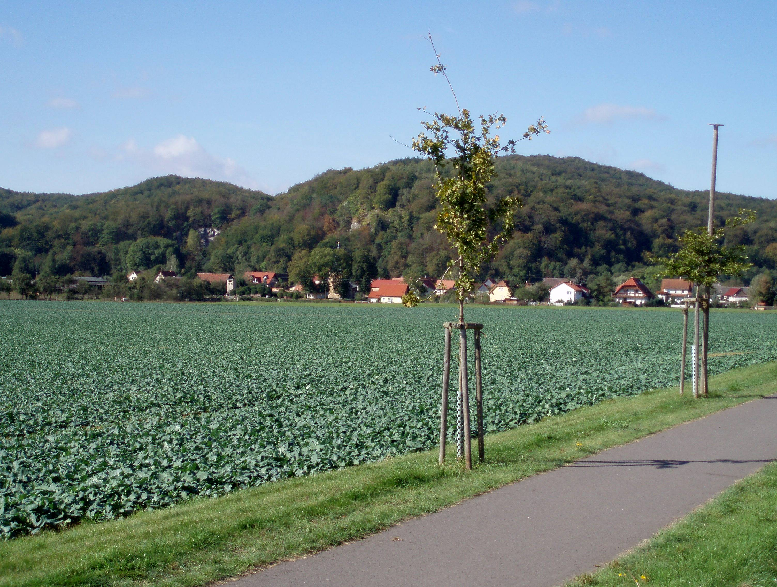 The village of Stempeda, Germany, with the Alter Stolberg heights and nature reserve